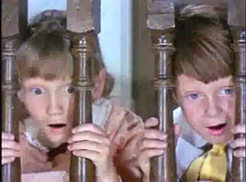 Screenshot of Karen Dotrice and Matthew Garber from the trailer for the film Mary Poppins